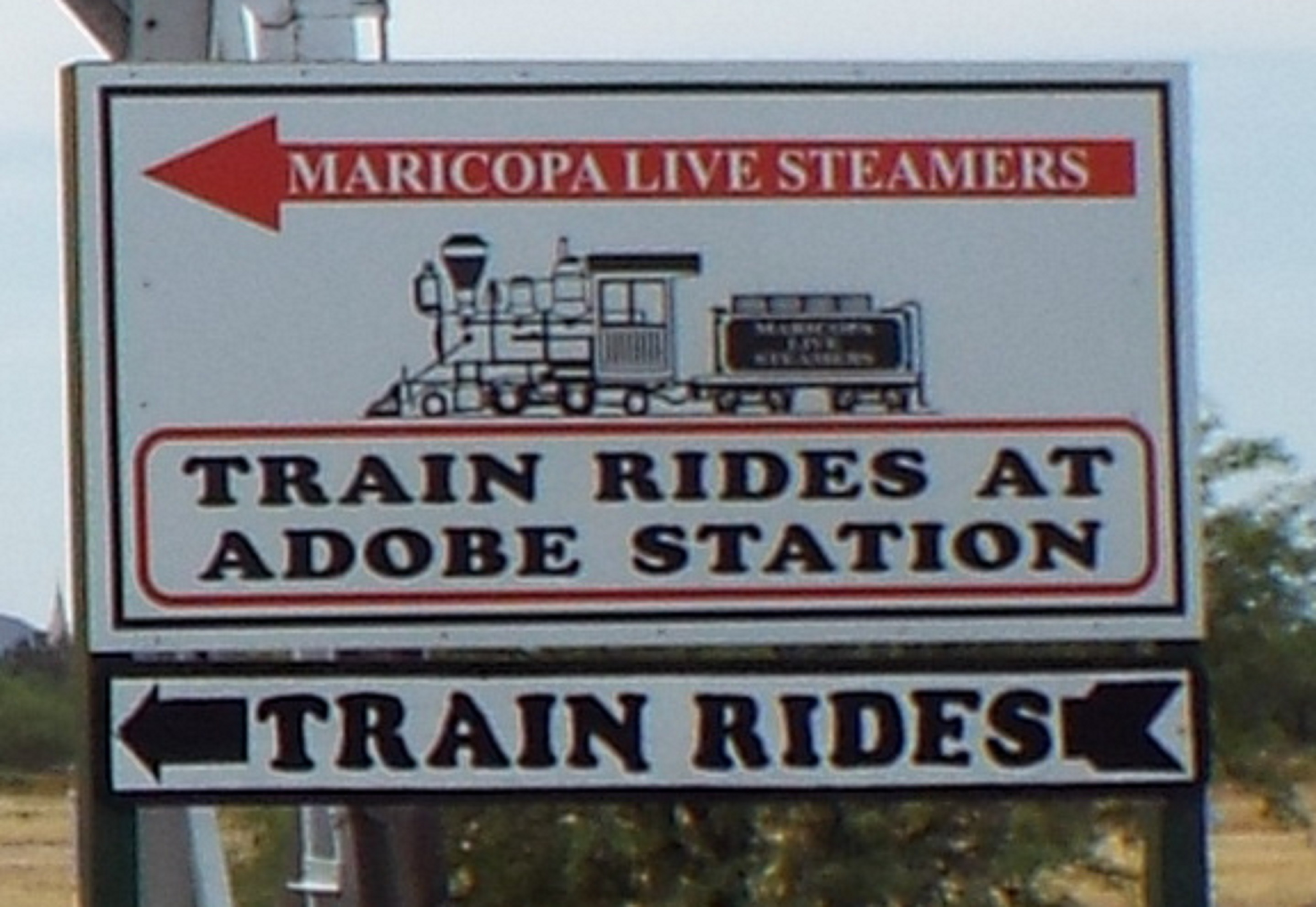 Maricopa Live Steamers sign leading to rides in the Adobe Station in Adobe Mountain Railroad Park